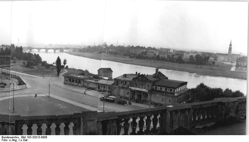 Dresden, Elbe, "Italienisches Dörfchen" 5-tlg. Information added by Wikimedia users.